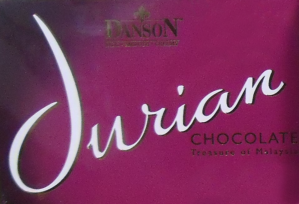 Logo of durian chocolate on a packaging (photo made in Kuala Lumpur, Malaysia)